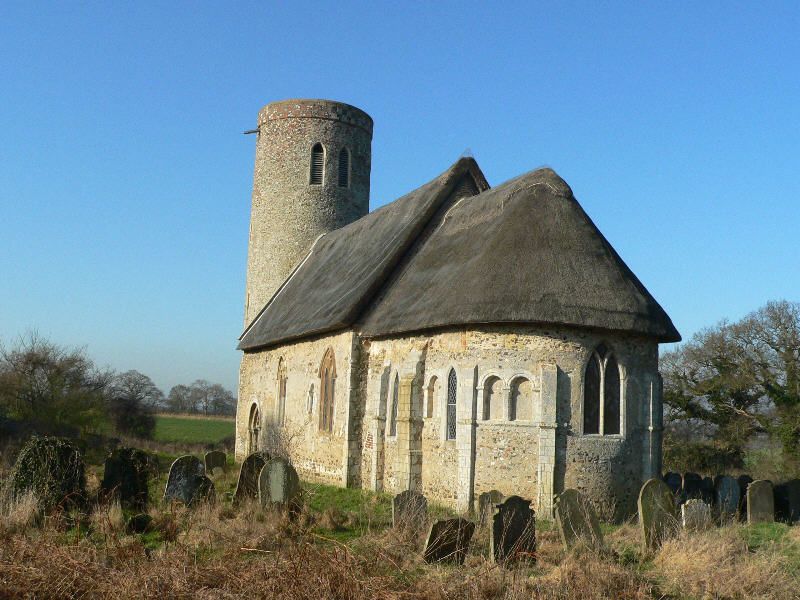 St Margaret's parish church, Hales, Norfolk, seen from east-southeast